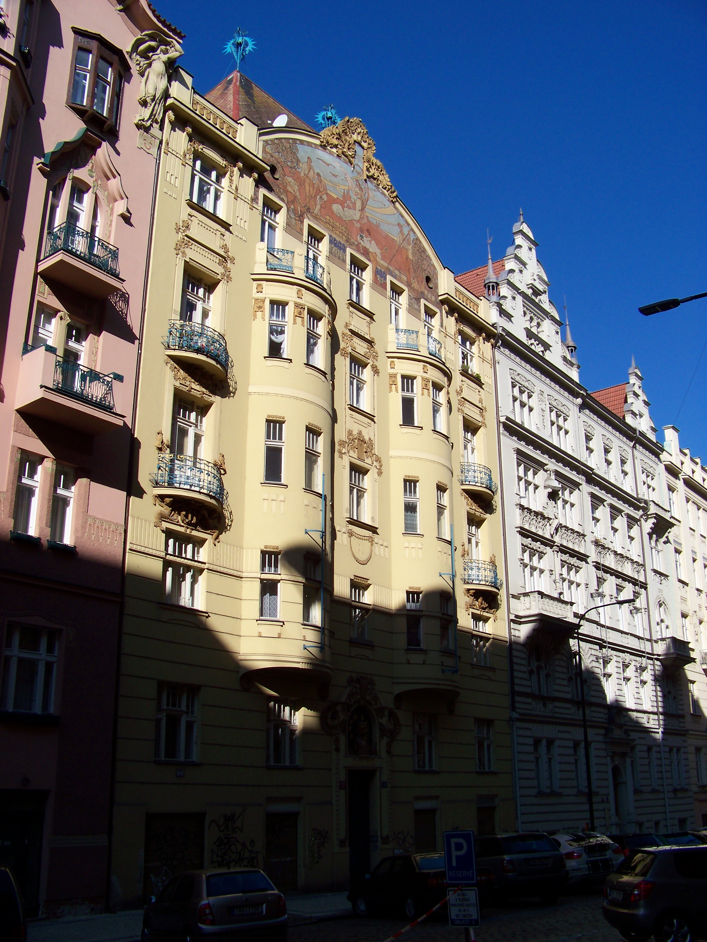 Prague-New Town. Gorazdova 1996/13.